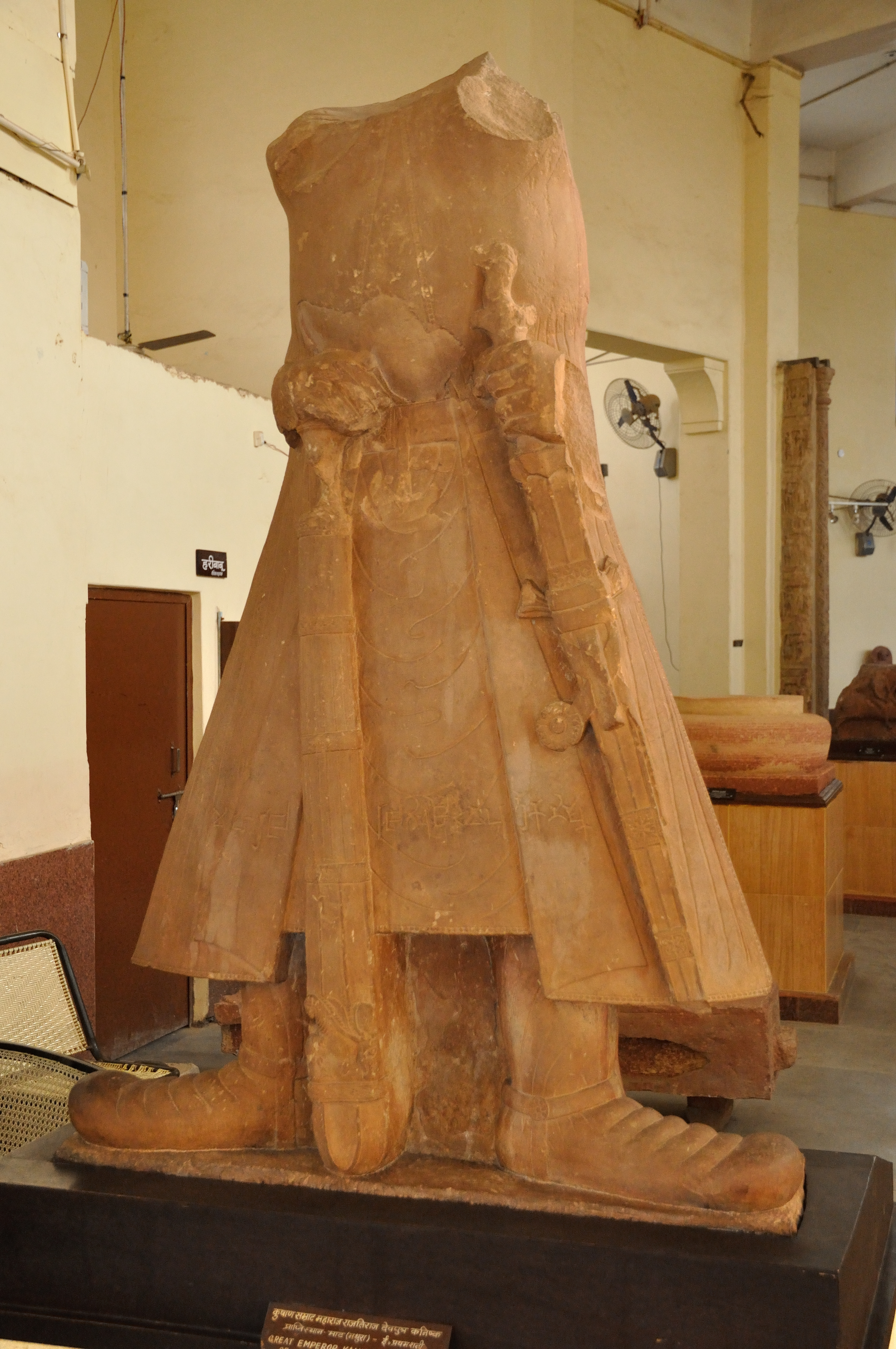 This artefact resides at the Government Museum, (hi: Rashtriya Sangrahalaya) formerly The Curzon Museum of Archaeology, Museum Road or Murari Lal Rajpal road, Dampier Nagar, Mathura, Uttar Pradesh, India. This museum is administrating by the State Government of Uttar Pradesh of India.